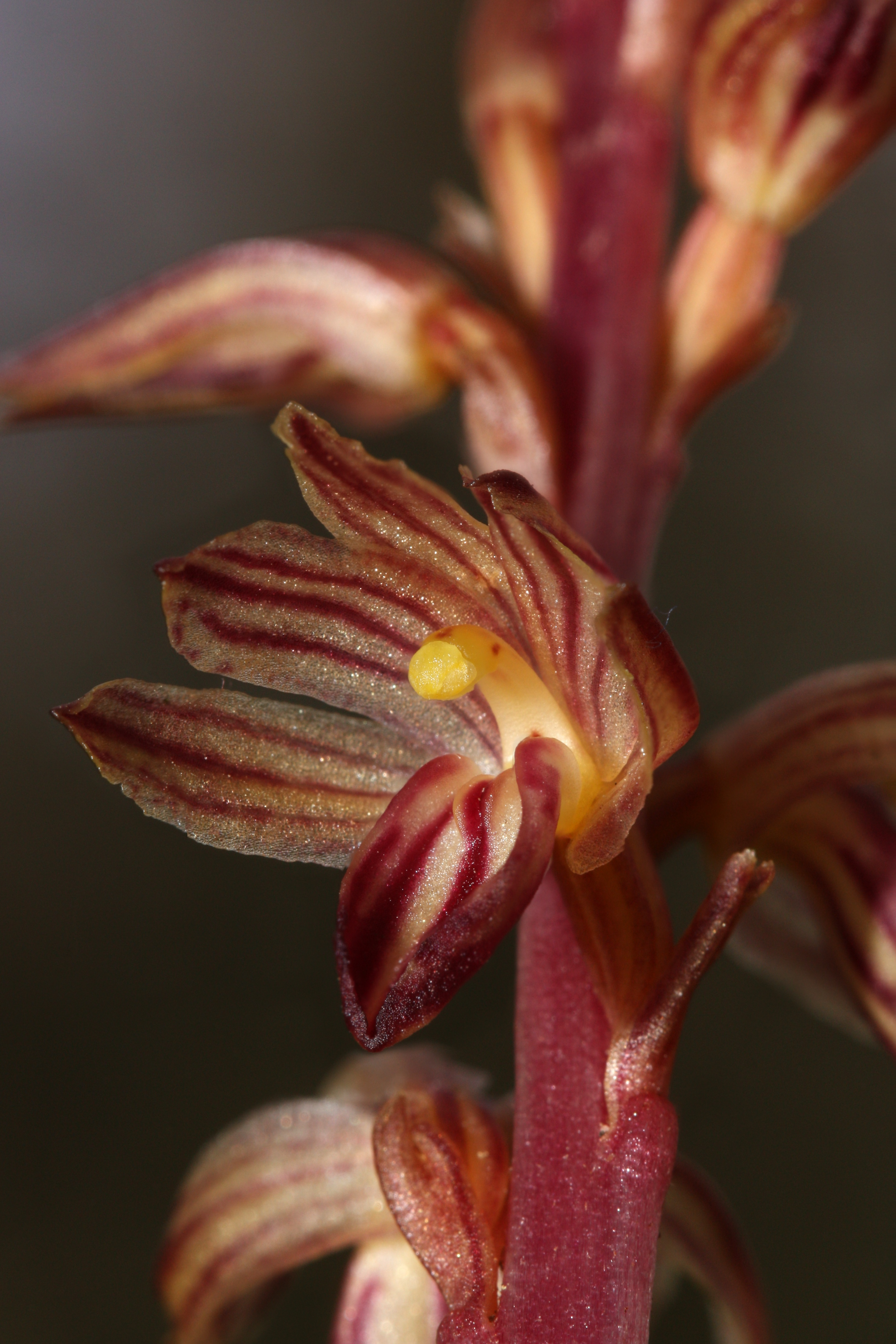 Striped Coralroot, Hooded Coralroot; Focus stacking (using Helicon Focus). Please see "Other versions" for source images. Identification by: Hitchcock and Cronquist, p. 700 Viewpoint location: McCall Point Trail, Tom McCall Preserve Viewpoint elevation: 383 meter (1258 ft) Location source: Garmin GPSmap 60CSx Location Datum: WGS84